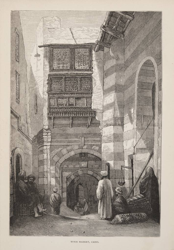 Several figures stand near a stack of blankets at the entrance of a tall building.